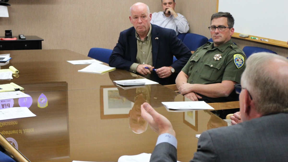 US Representative Greg Gianforte (R-MT) talks issues of illegal drug interdiction with the Montana Highway Patrol, the Montana Department of Justice, and Montana Attorney General Tim Fox.